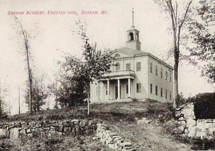 Academy Building, Gorham Academy, Gorham, Maine. Designed by Samuel Elder, it was erected in 1806. The building is listed on the National Register of Historic Places.